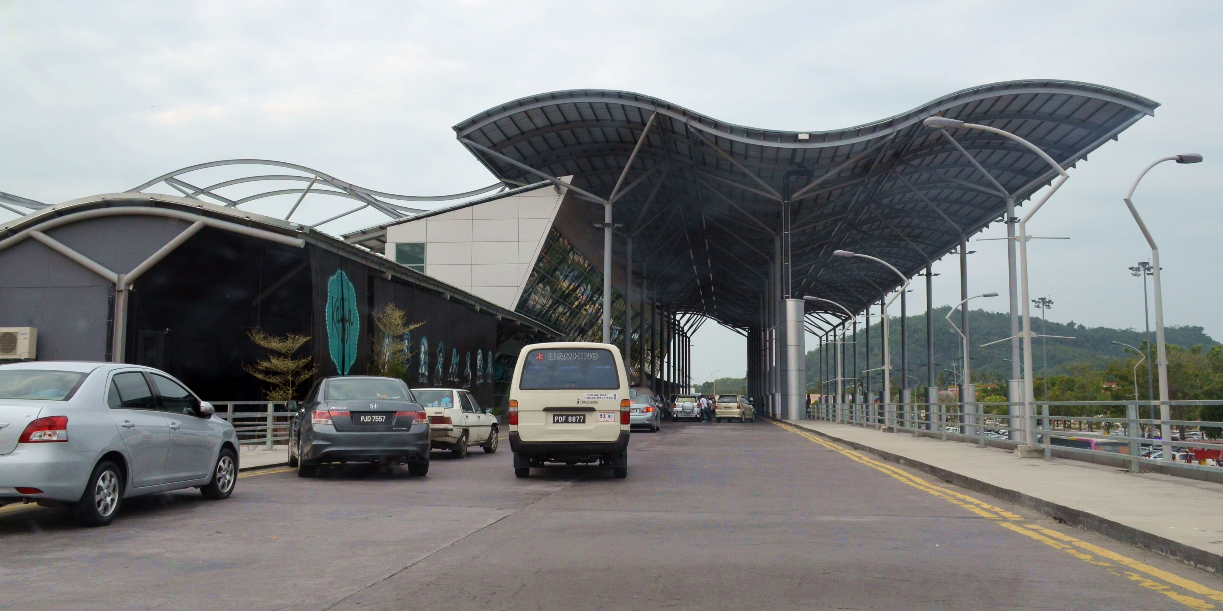 Penang International Airport terminal after 2012 upgrade.